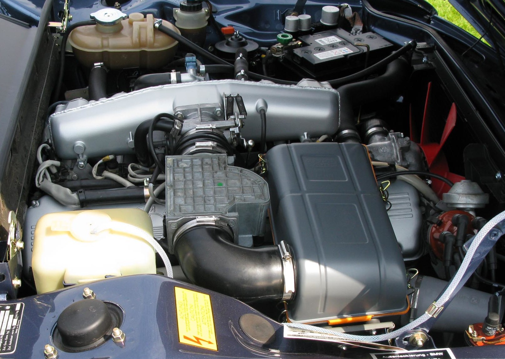 Event: Tjolöholm Classic Motor 2012.